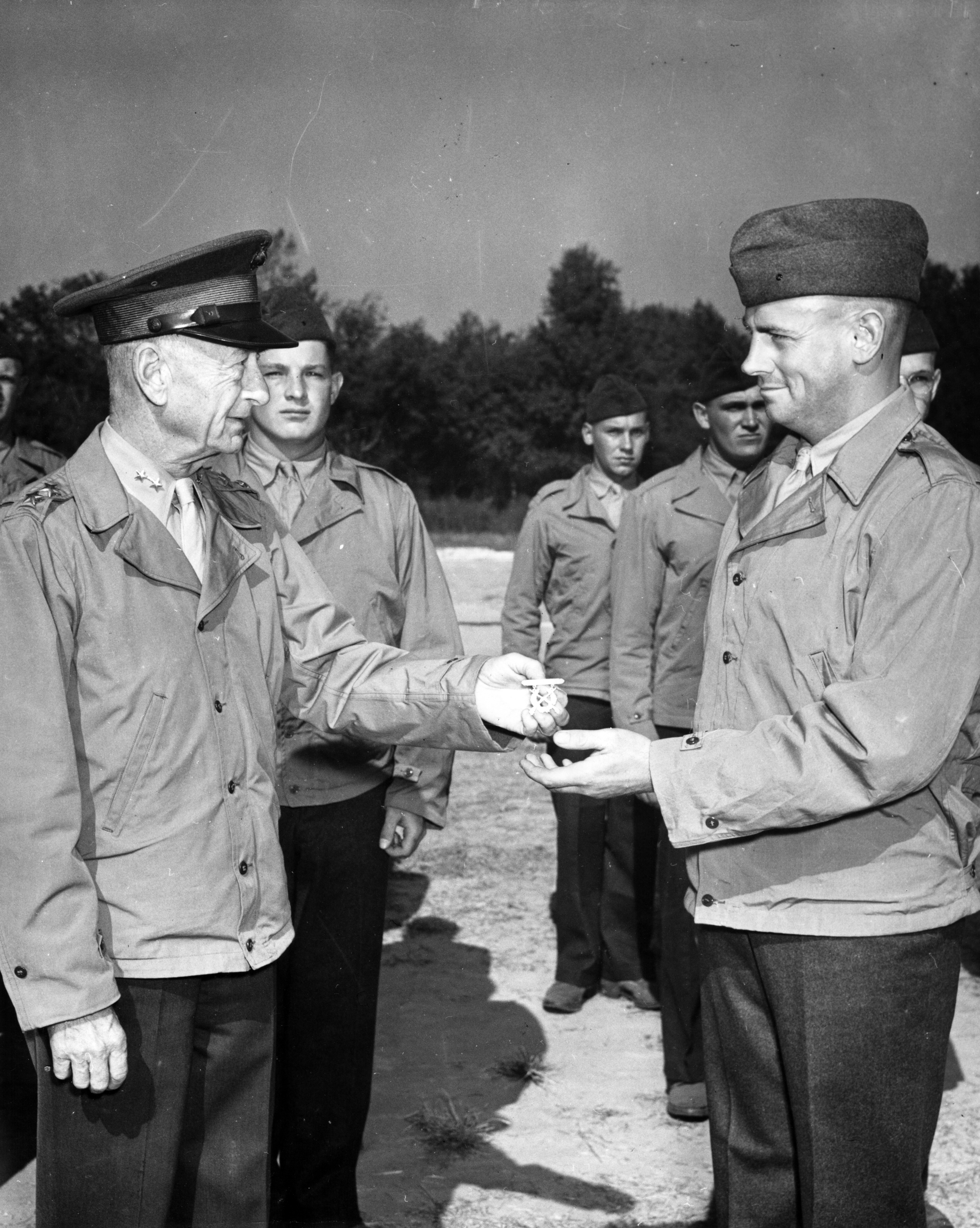 Official description: Ickes son receives rifle medal - Major general Emile P. Moses, Commanding General of the Parris Island, Marine Barracks hands an "expert" rifleman medal to Private First Class Raymond W. Ickes, son of Honorable Harold L. Ickes, Secretary of the Interior, Pfc Ickes' platoon also fired highest qualifiying percentage in recent range history with 100 per cent of the Platoon qualifying. Ickes was a graduate of the University of Chicago in 1939 with A.B., M.A. and J.D. degrees.